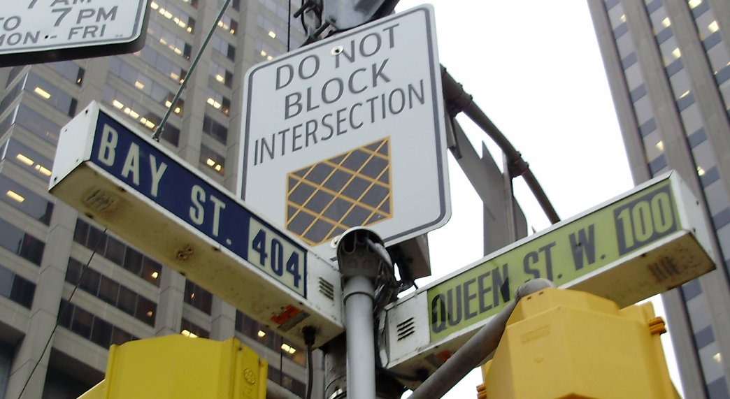 Street signs at the corner of Bay Street and Queen Street West in Toronto.